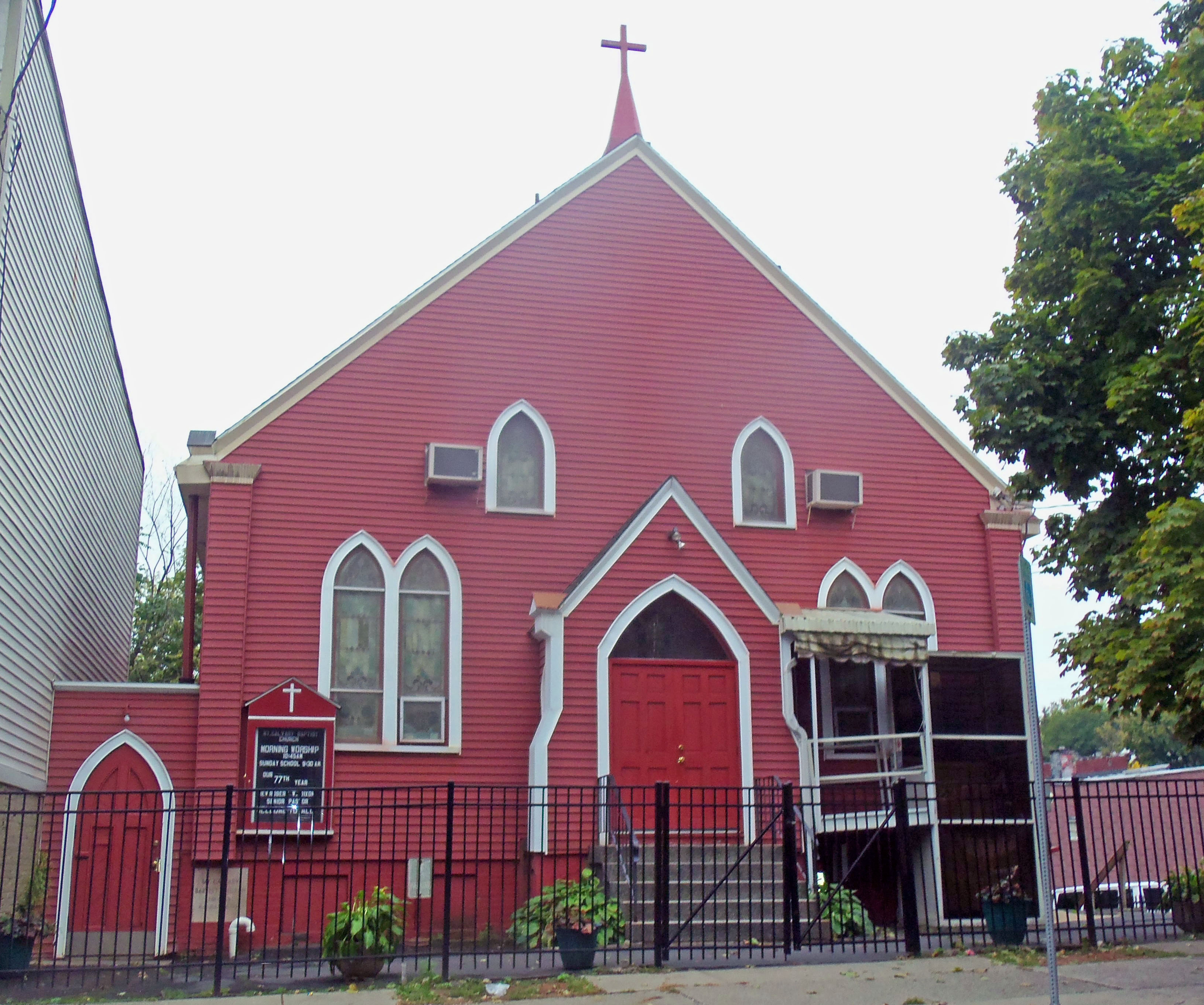 Mt. Calvary Baptist Church, on Franklin Street in Albany, NY, USA. A contributing property to the South End–Groesbeckville Historic District as the oldest wooden church in the city of Albany.